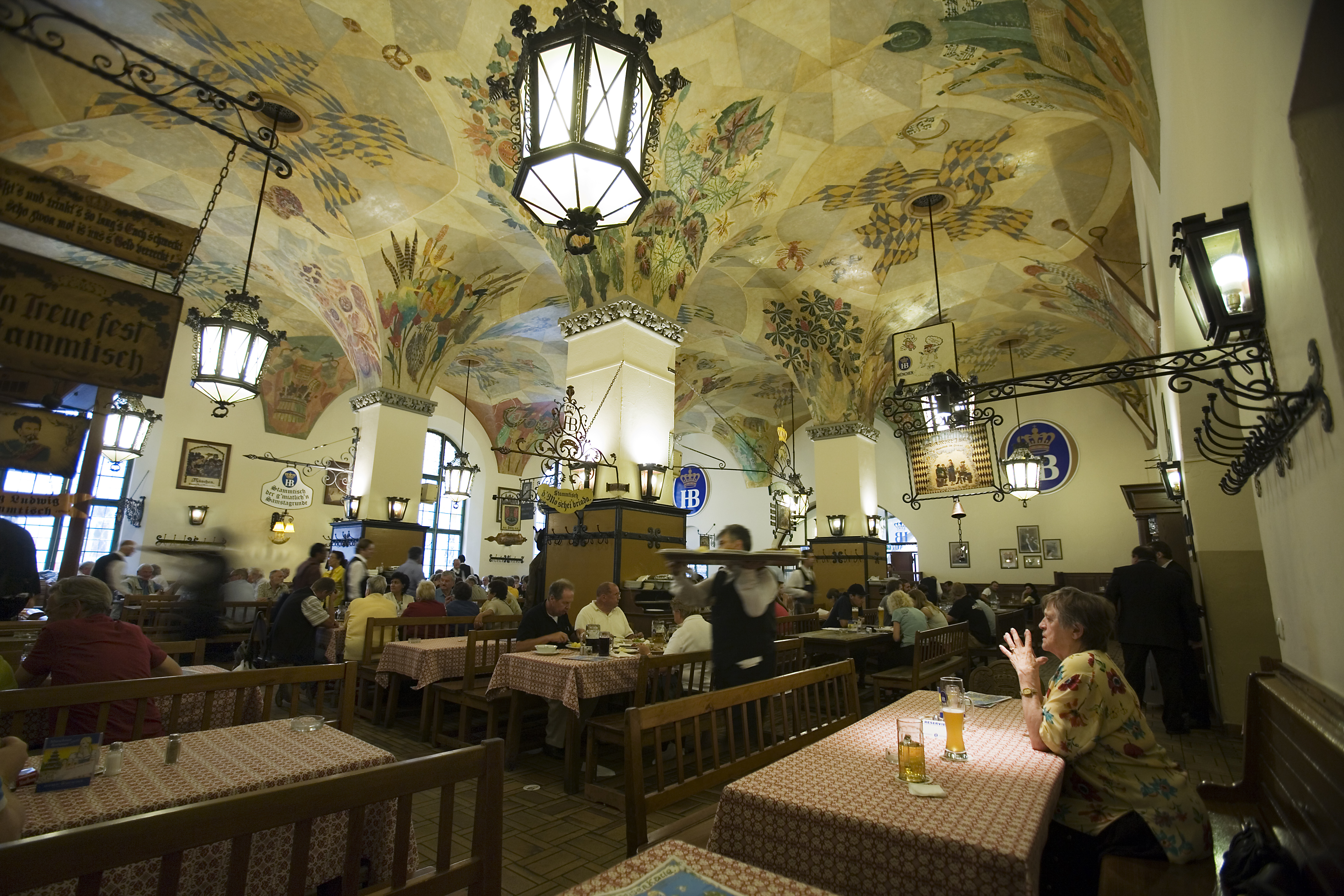 A woman at her table looking a the elaborated ceiling at the Hofbrauhaus am Platzl. Munich, Germany